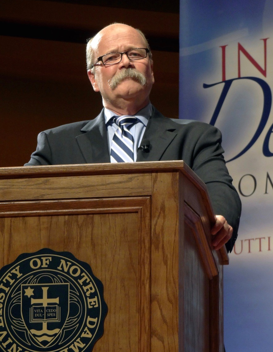 The WFWA PBS39 Engineering and Production team traveled to South Bend, IN Wednesday to crew a live gubernatorial debate from DeBartolo Performing Arts Center on the campus of Notre Dame. The debate was broadcast live on many of Indiana's TV and radio stations, including WFWA PBS39. This was a true team effort by Lakeshore Public Television, Merrillville, IN - WNIT Public Television, South Bend, IN - and WFWA Fort Wayne.